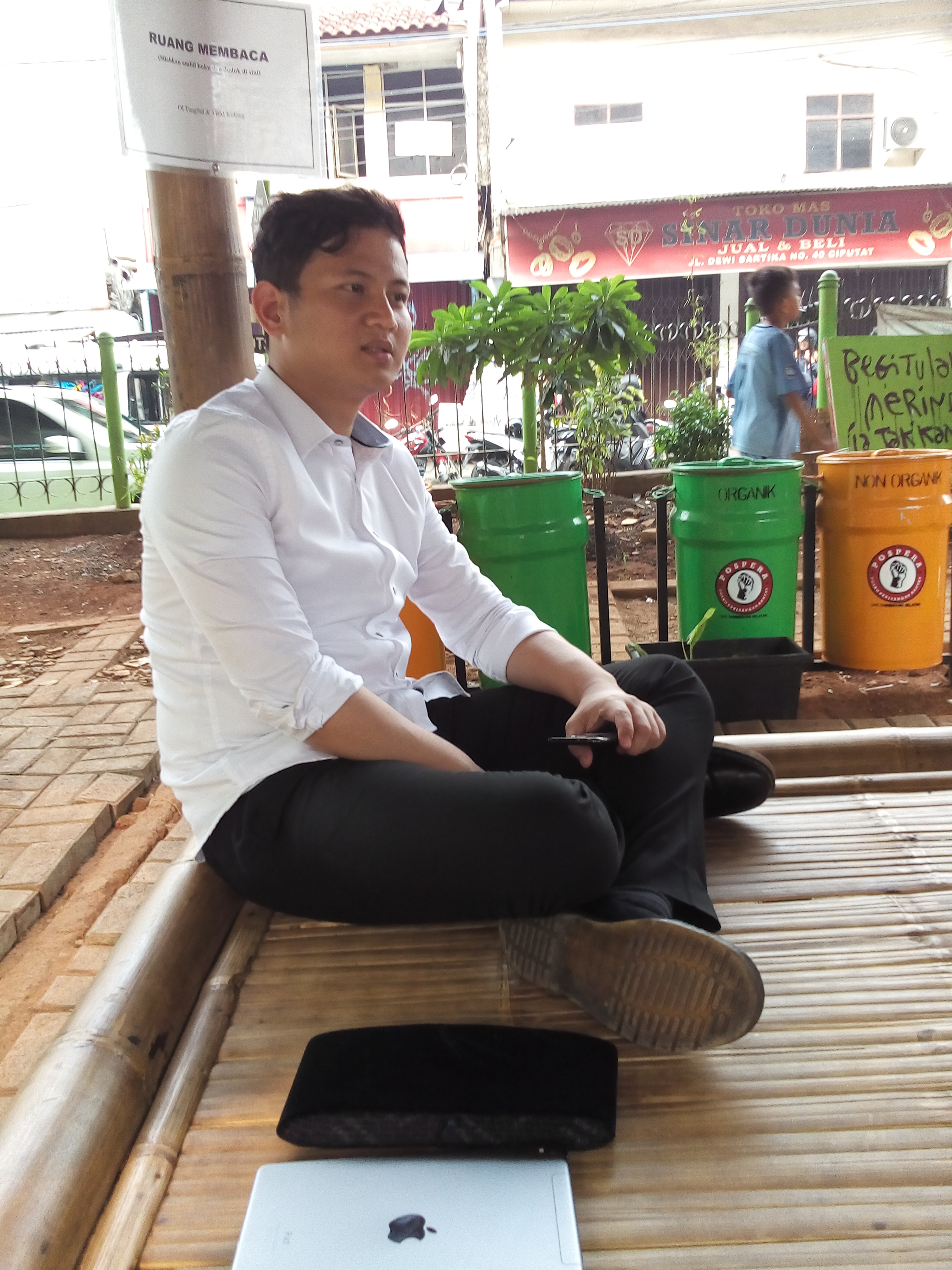 The Regent of Trenggalek, Mochammad Nur Arifin is sitting in a gazebo in the Ciputat area, South Tangerang. This was during his visit to Syarif Hidayatullah State Islamic University Jakarta.